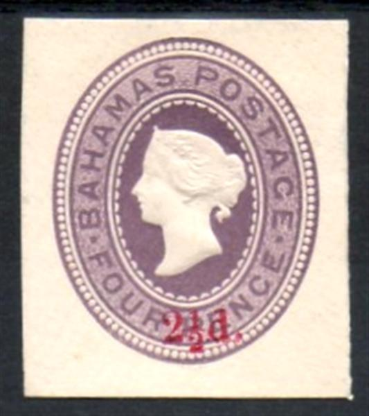 1891 Bahamas imprinted stamp cut square from 1891 postal stationery envelope